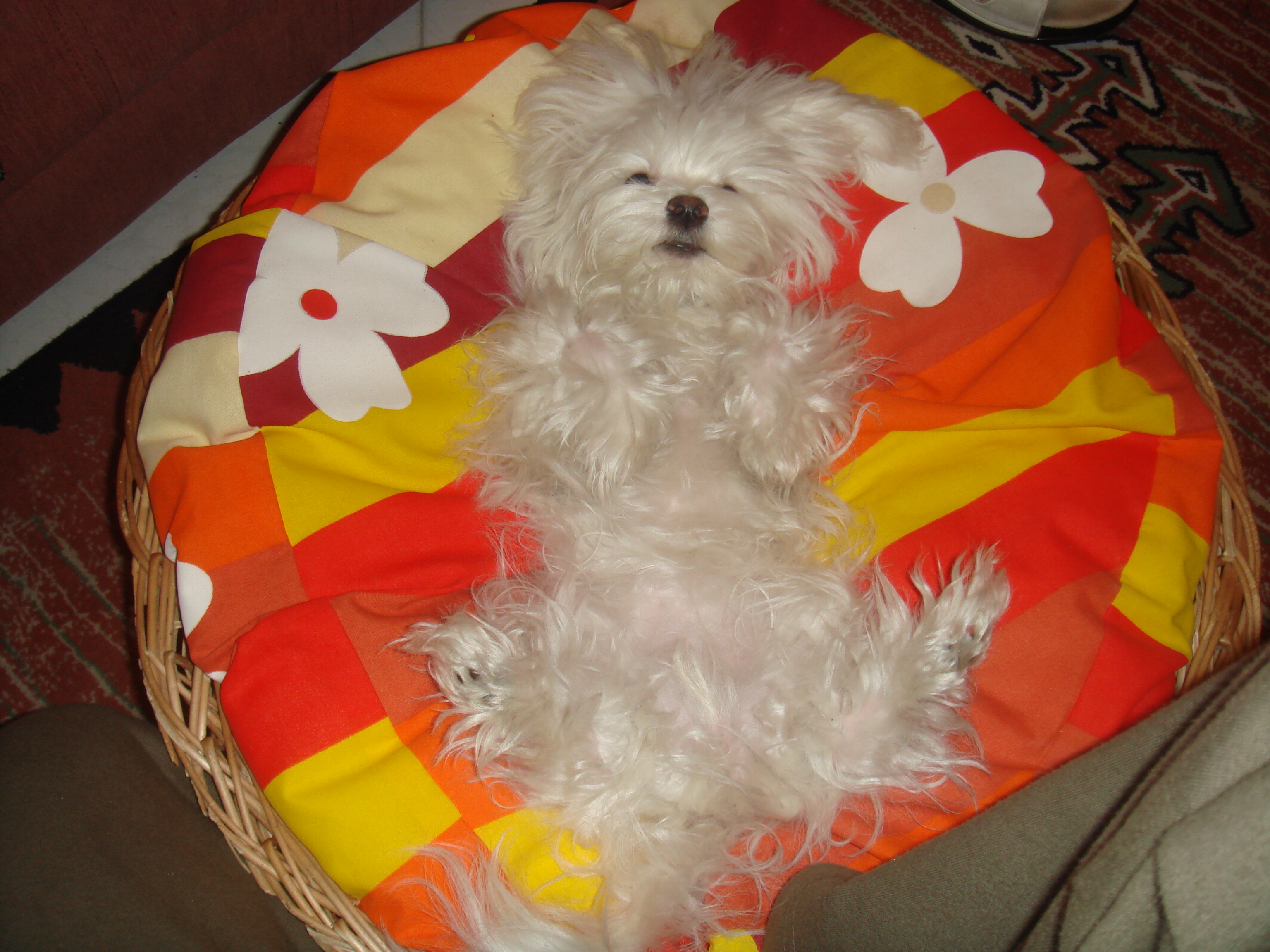 Maltese Dog , Maltese Puppie , Maltese